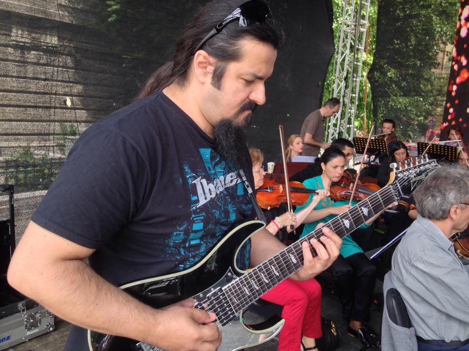 Cristi Gram during a concert (2015).